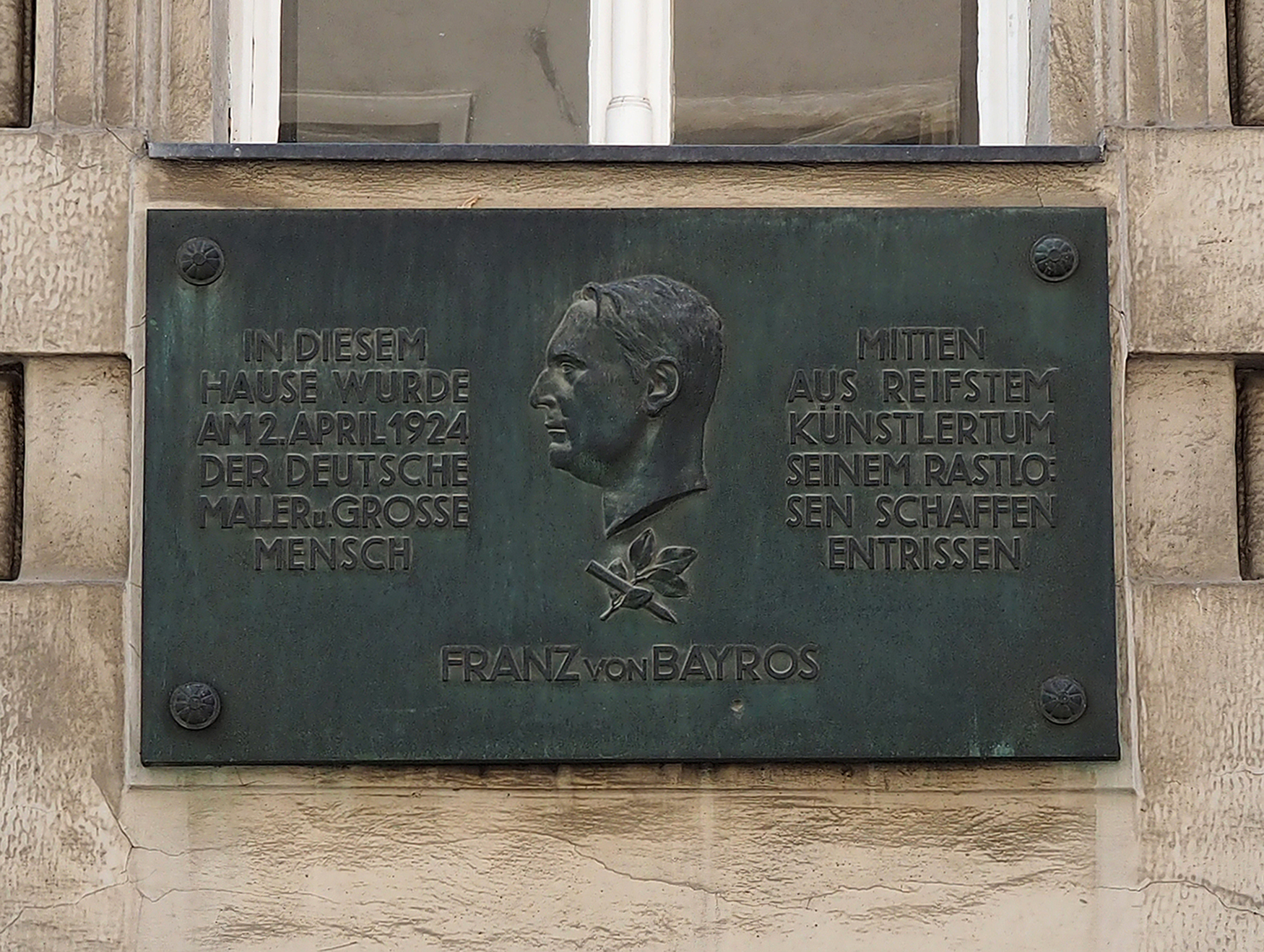 Memorial plaque of the painter and illustrator Franz von Bayros (1866–1924), attached to building where he died. Tongasse 4, 1030 Vienna